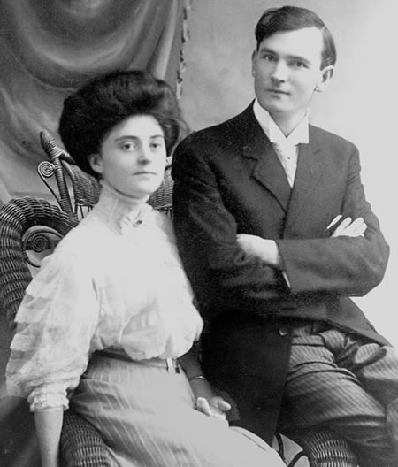 Bob Jones Sr. (1883-1968) and wife